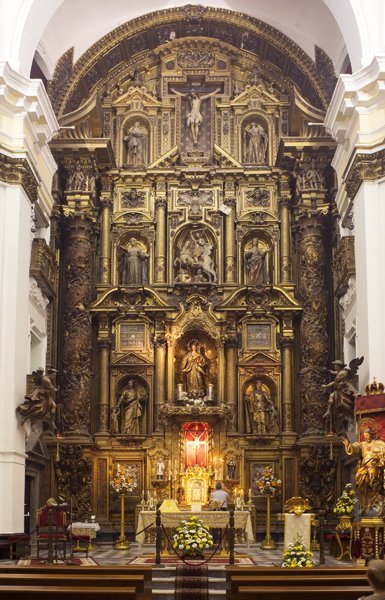 Ref: PM_100792_E_Cadiz.jpg; Cádiz; iglesia de Santiago Apóstol; Cádiz; Spain; Europe/Spain/Cádiz; photo: Paul M.R.Maeyaert; © Paul M.R. Maeyaert